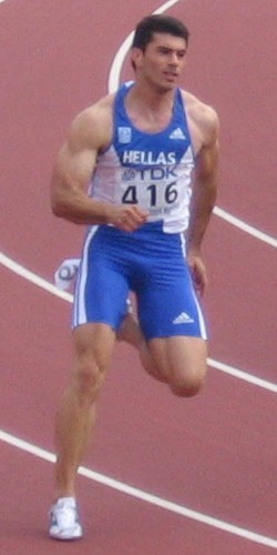 A 200 metres run at the 2005 Athletics World Championships in Helsinki. qualifications - heat 1 (-2.5m/s): 6 lan- 416 Sarrís Panayiótis GRE 21.43